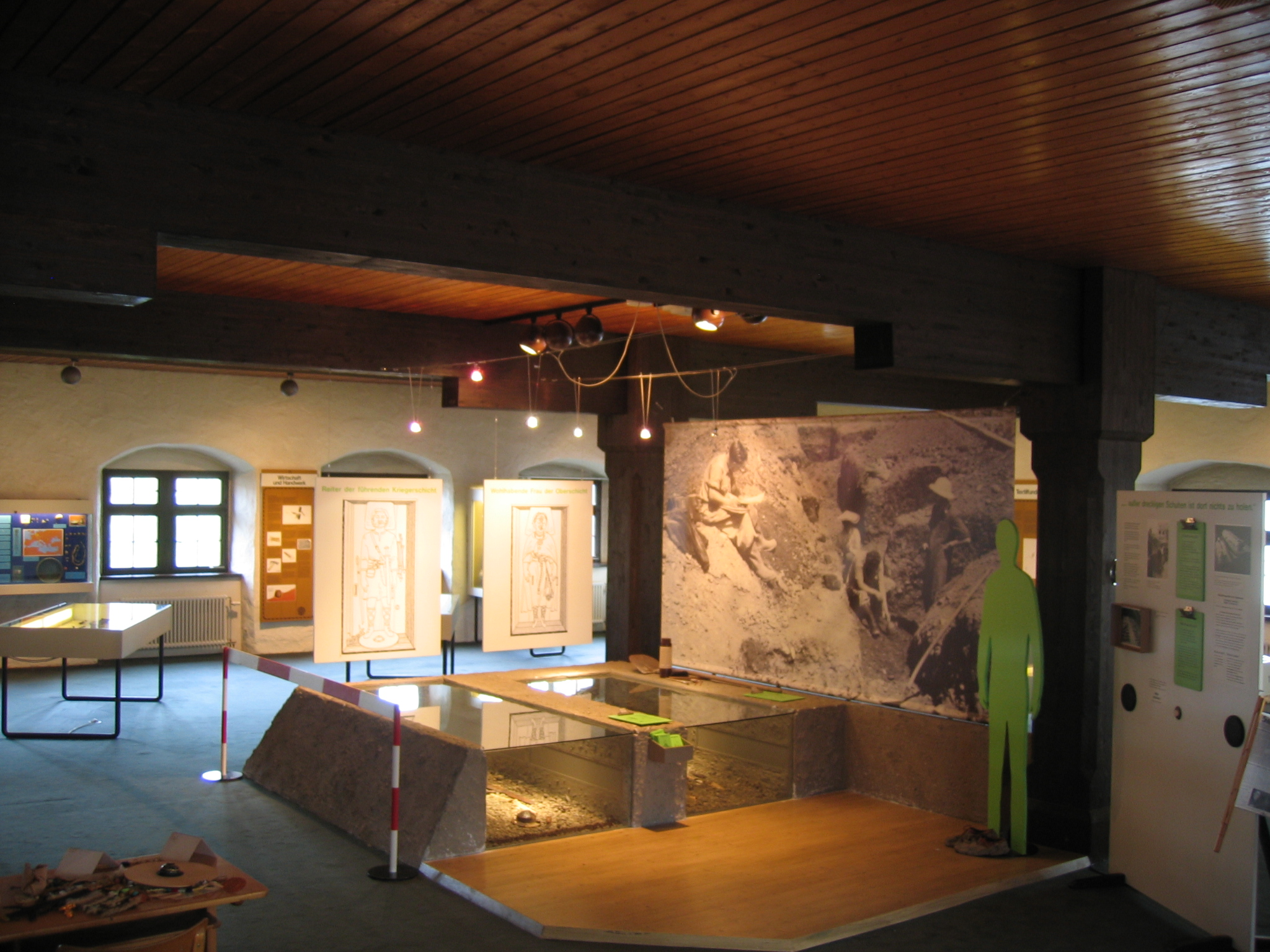 Inside Alamannenmuseum Weingarten with 2 reconstructed graves until year 2007